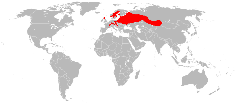 Range of the European beaver (Castor fiber)